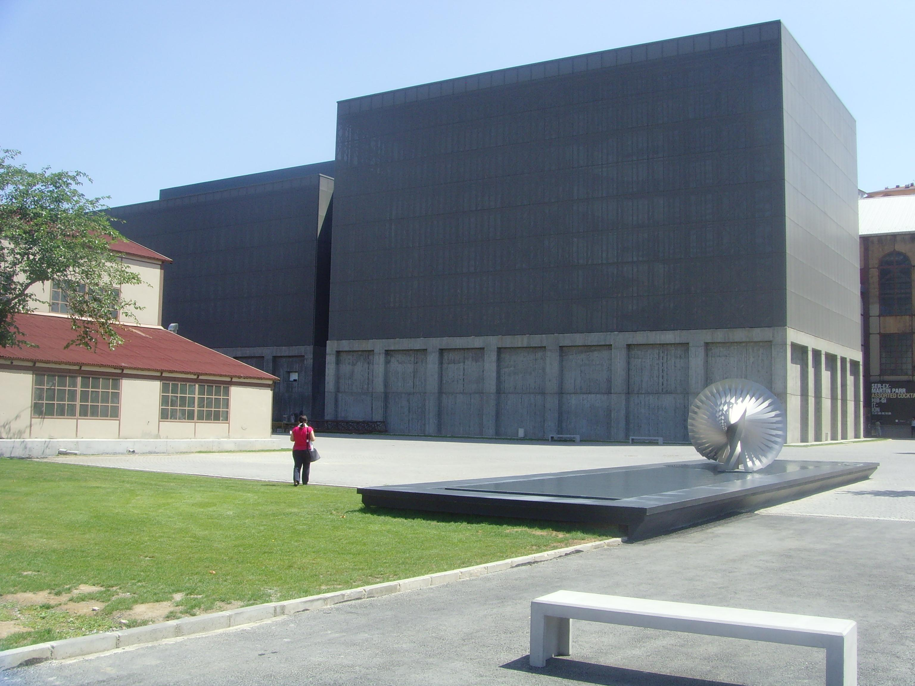 SantralIstanbul - exterior